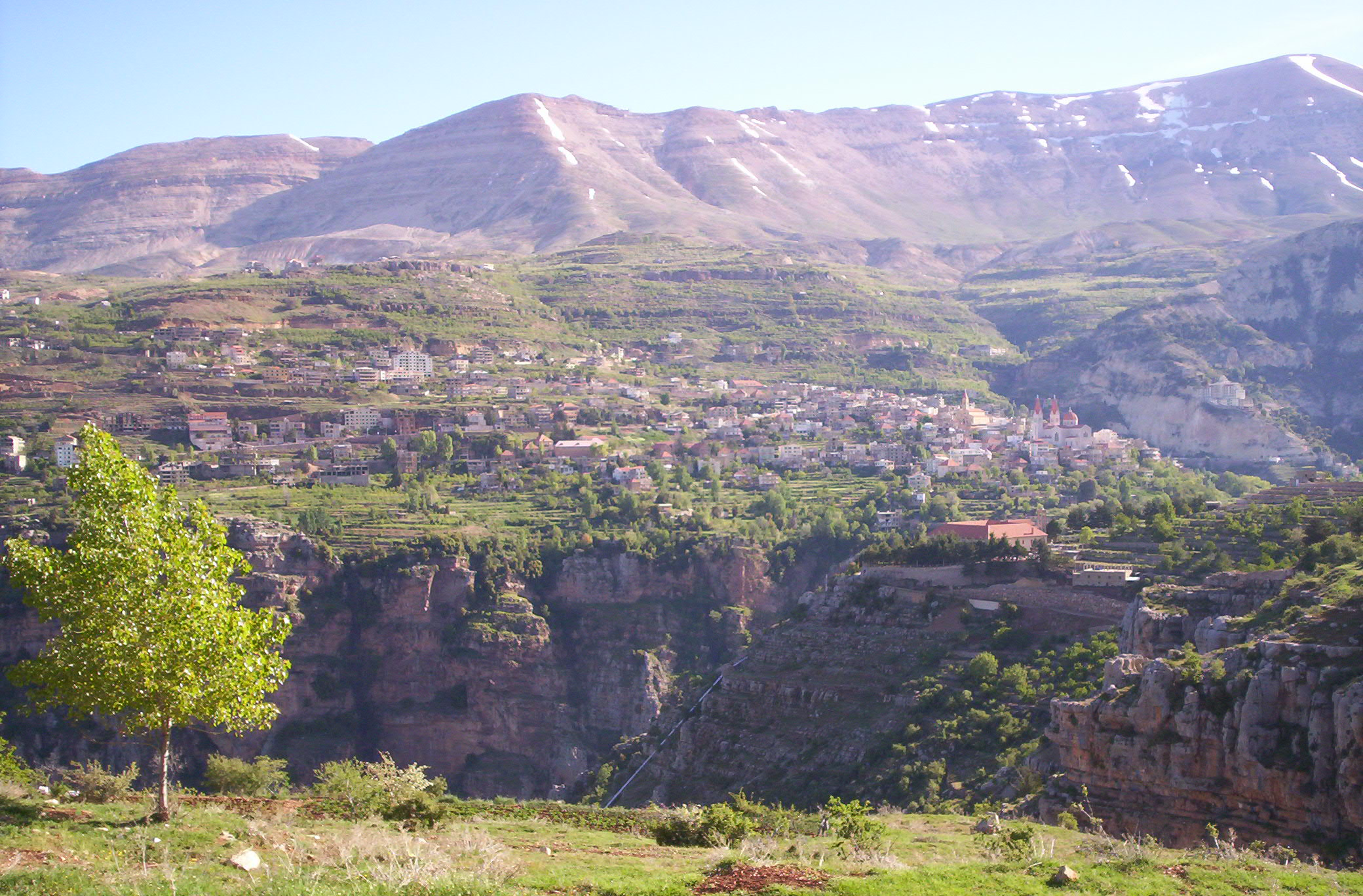 Bsharri during the spring (photo taken by sami succar).